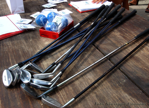 Sands & Wedges